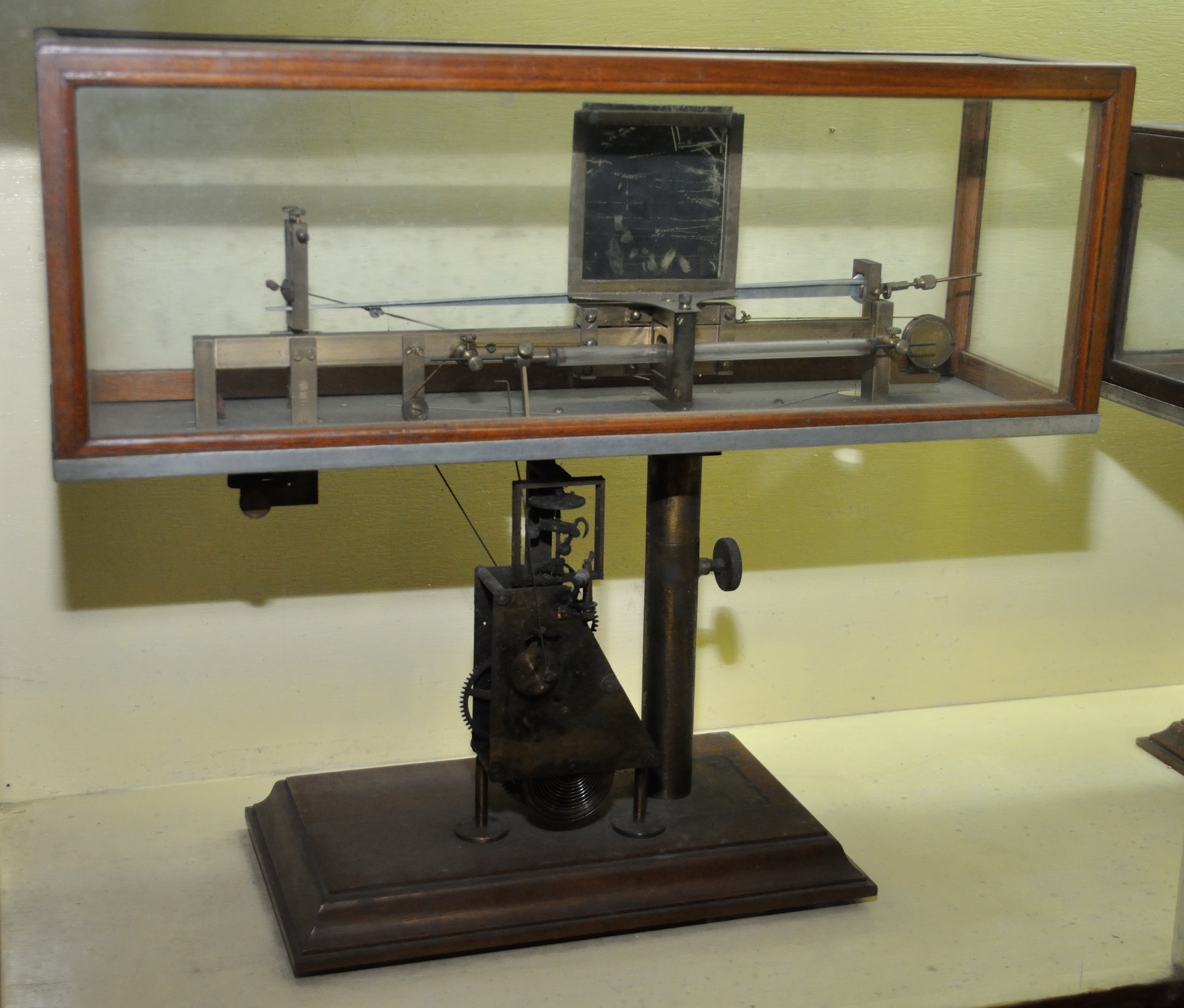 Acharya, Sir Jagadish Chandra Bose or Jagadis Chunder Bose (30 November, 1858 – 23 November, 1937), himself started the display of his own instruments which, as a continuous process, made their way into the present technological museum in the year 1986 - 87. This museum which is the part of the Bose Institute, Kolkata, is displaying some of the instruments designed, made and used by Sir J. C. Bose with his personal belongings, memorabilia and an exhibition on his Life and Works.